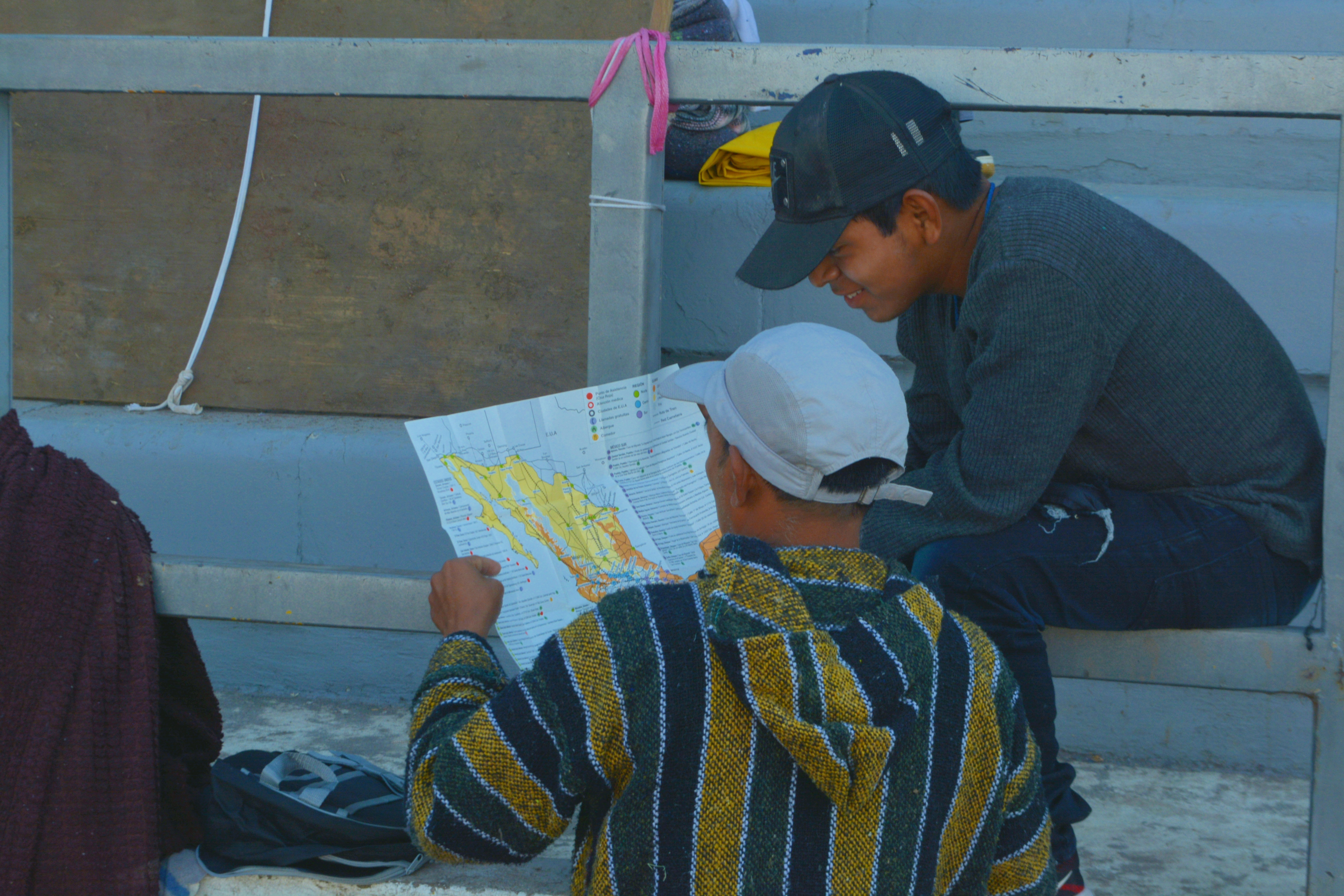 Migrant people looking for routes on a Mexico map. Ciudad Deportiva Magdalena Mixhuca temporary camp, Mexico City.